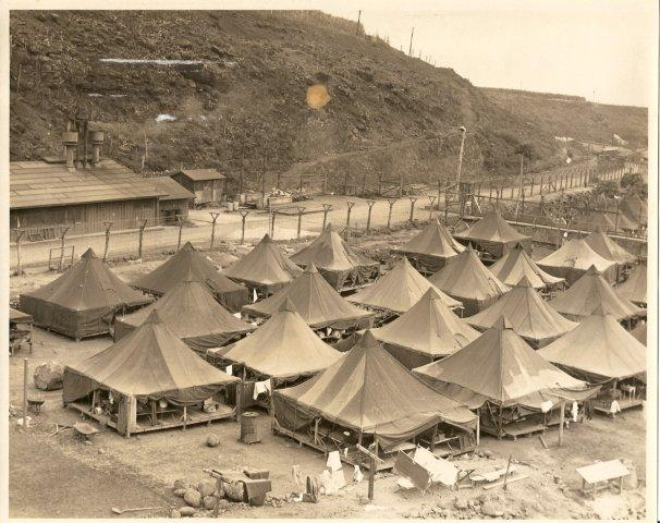 A view of the Honouliuli Internment Camp in Hawaii